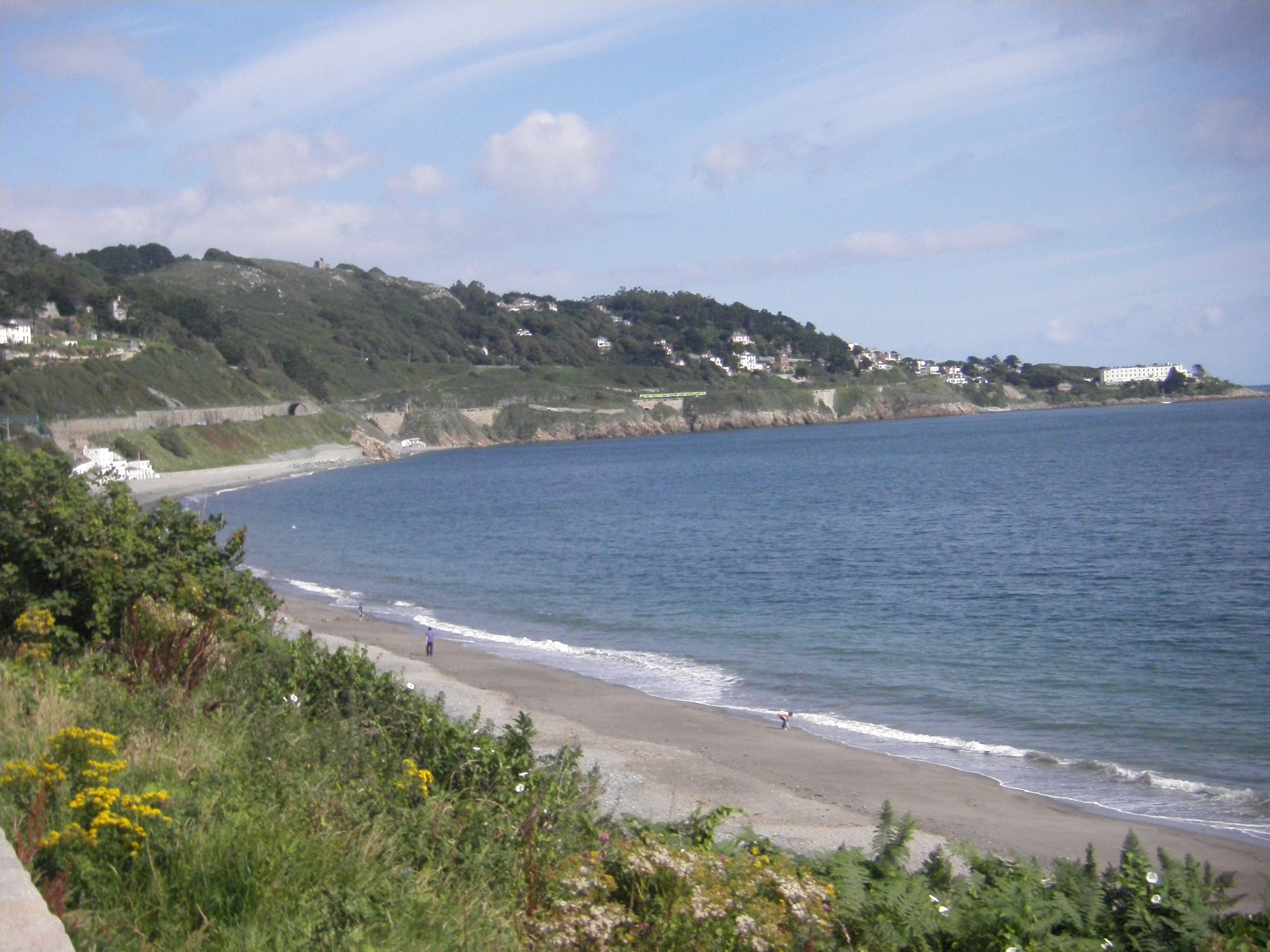 Killiney Bay